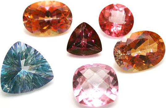 Genuine topaz gemstones in various colours. mystic and azotic topaz is also seen.